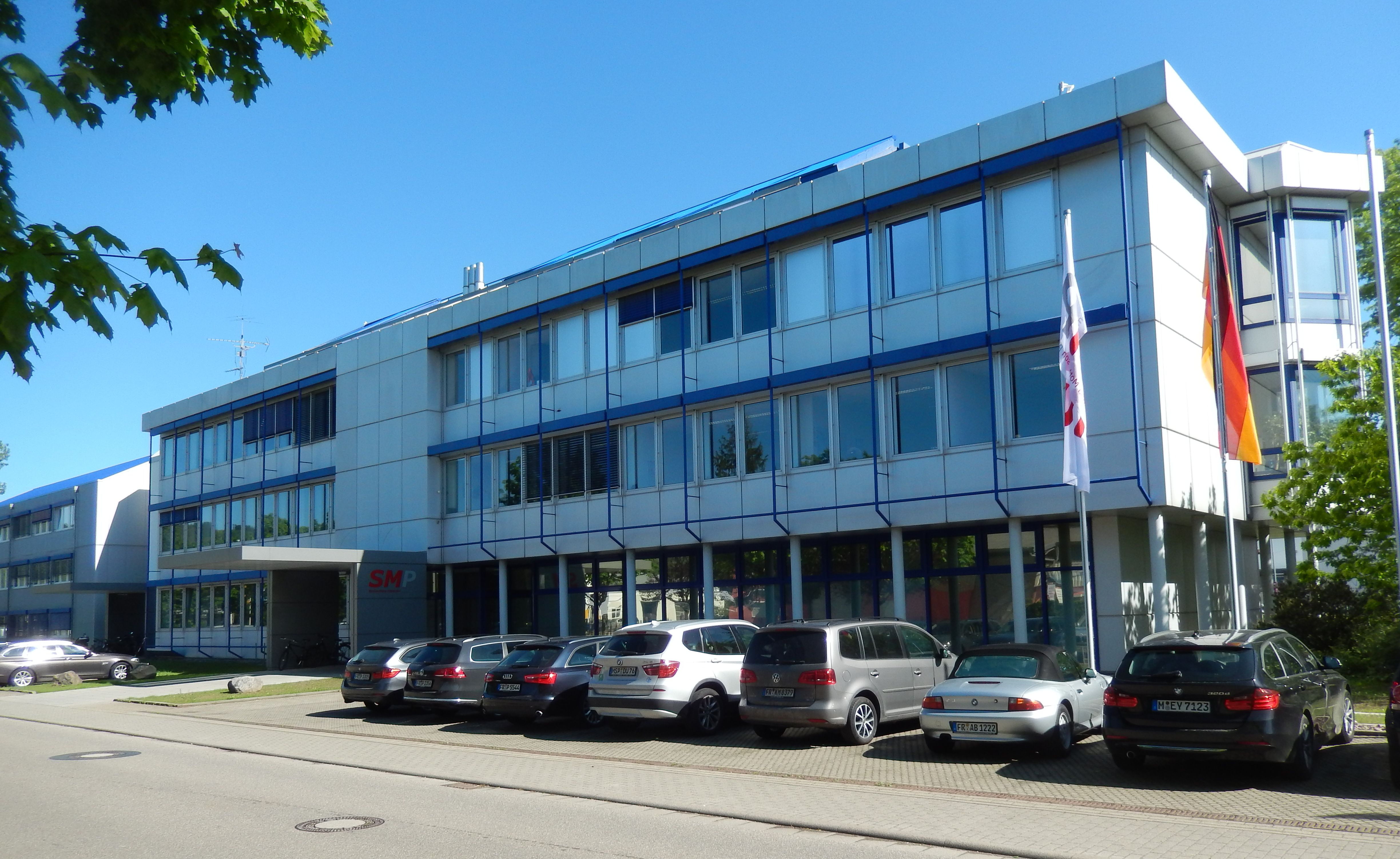 SMP Office building in Bötzingen, Germany.